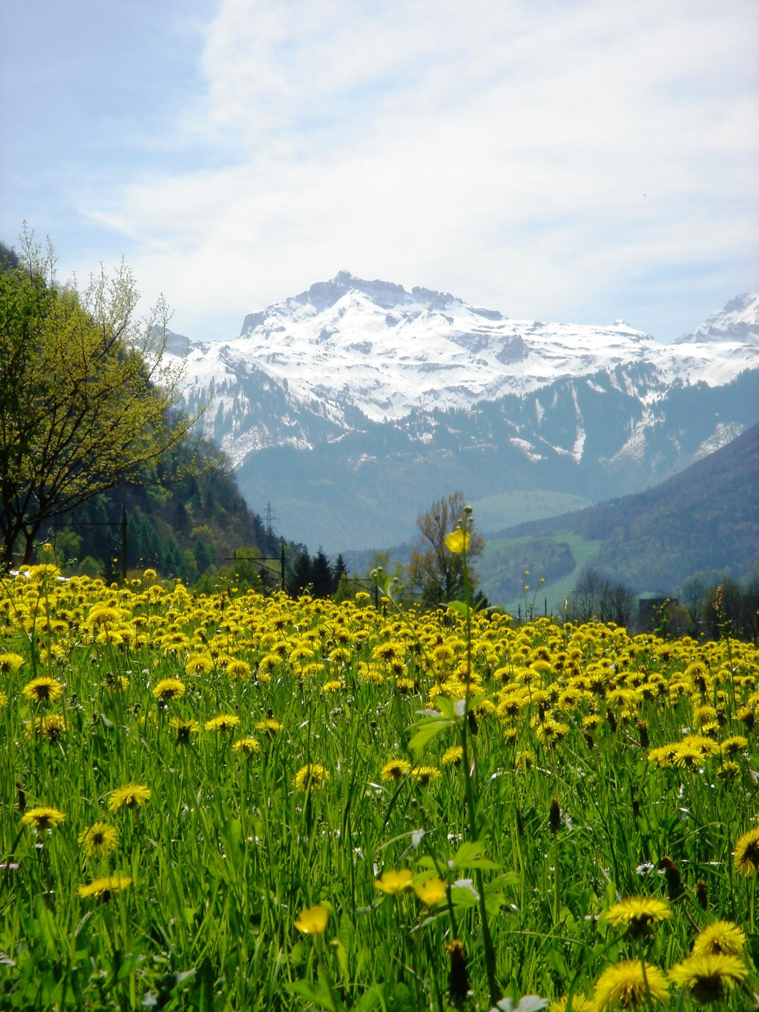 Photo on the trail that runs through the sharp valley of the Kanton Glarus from the highway to Linth.